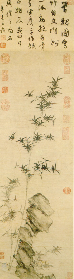 Bamboo and Stone by Guan Daosheng, Yuan Dynasty, China, National Palace Museum, Taipei